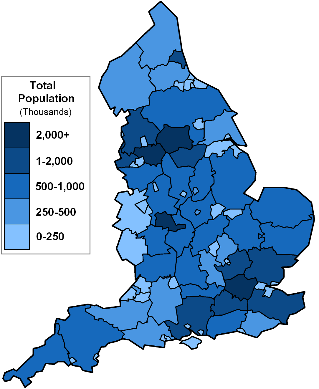 Counties of England by population, based on GNU map here as listed on List of English counties by population